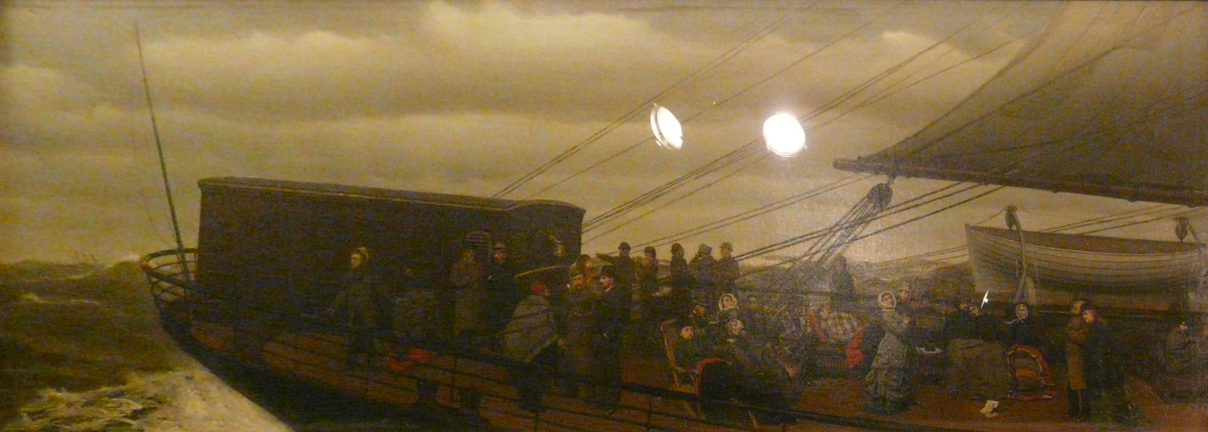 SS Ohio Mid-Ocean. George Wright. 1874, oil on canvas. Independence Seaport Museum